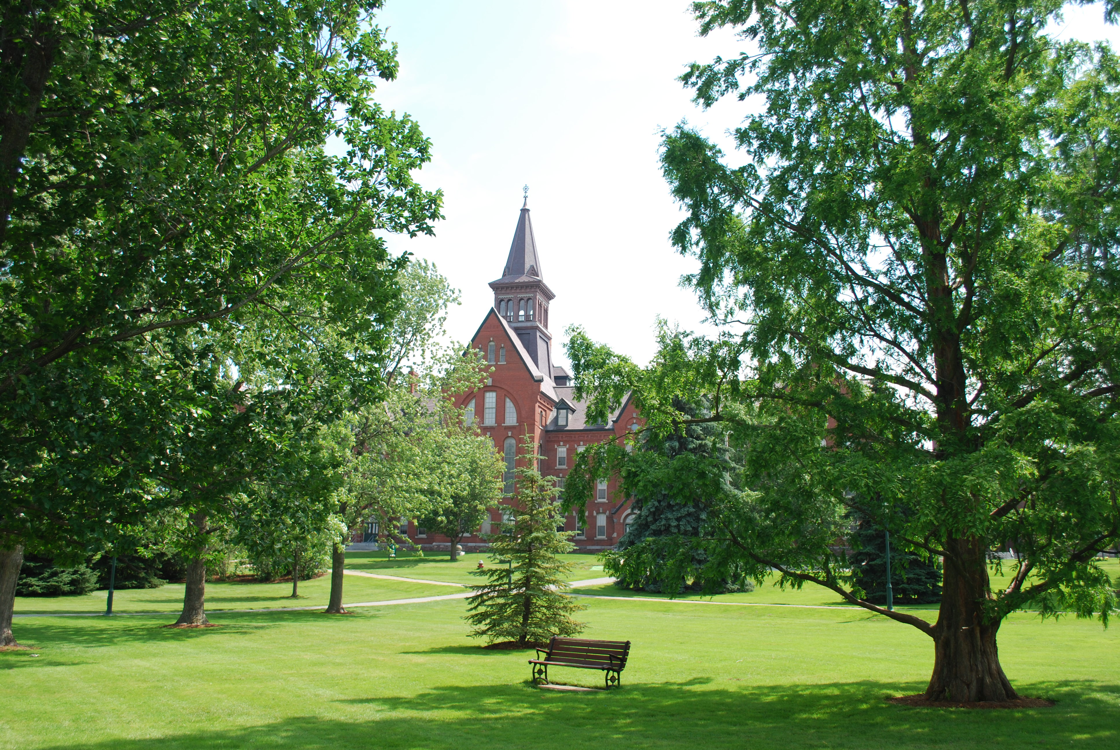 Old Mill Building on the UVM campus.